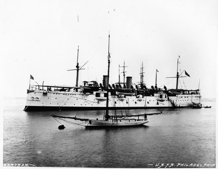 Title: U.S.F.S. Philadelphia Creator: Brother Bertram Subjects: Ships; Honolulu Harbor; Boats Island: Oahu City: Honolulu